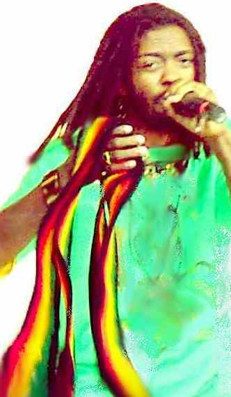 Reggaesinger I Wayne, photo from concert